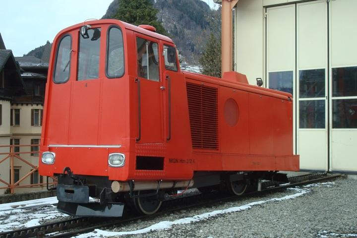 Diesel locomotive Hm 2/2 4 of today's transport Montreux-Vevey-Riviera (MVE) in December 2009 in Glion. This diesel locomotive is the former Hm 2/2 8 of the Brienz-Rothorn-Bahn BRB. It was bought in 1995 by the former Montreux-Glion-Rochers-de-Naye-Bahn (MGN) for the rack railway on the Rochers-de-Naye. The name on the picture reads: MGN Hm 2/2 4